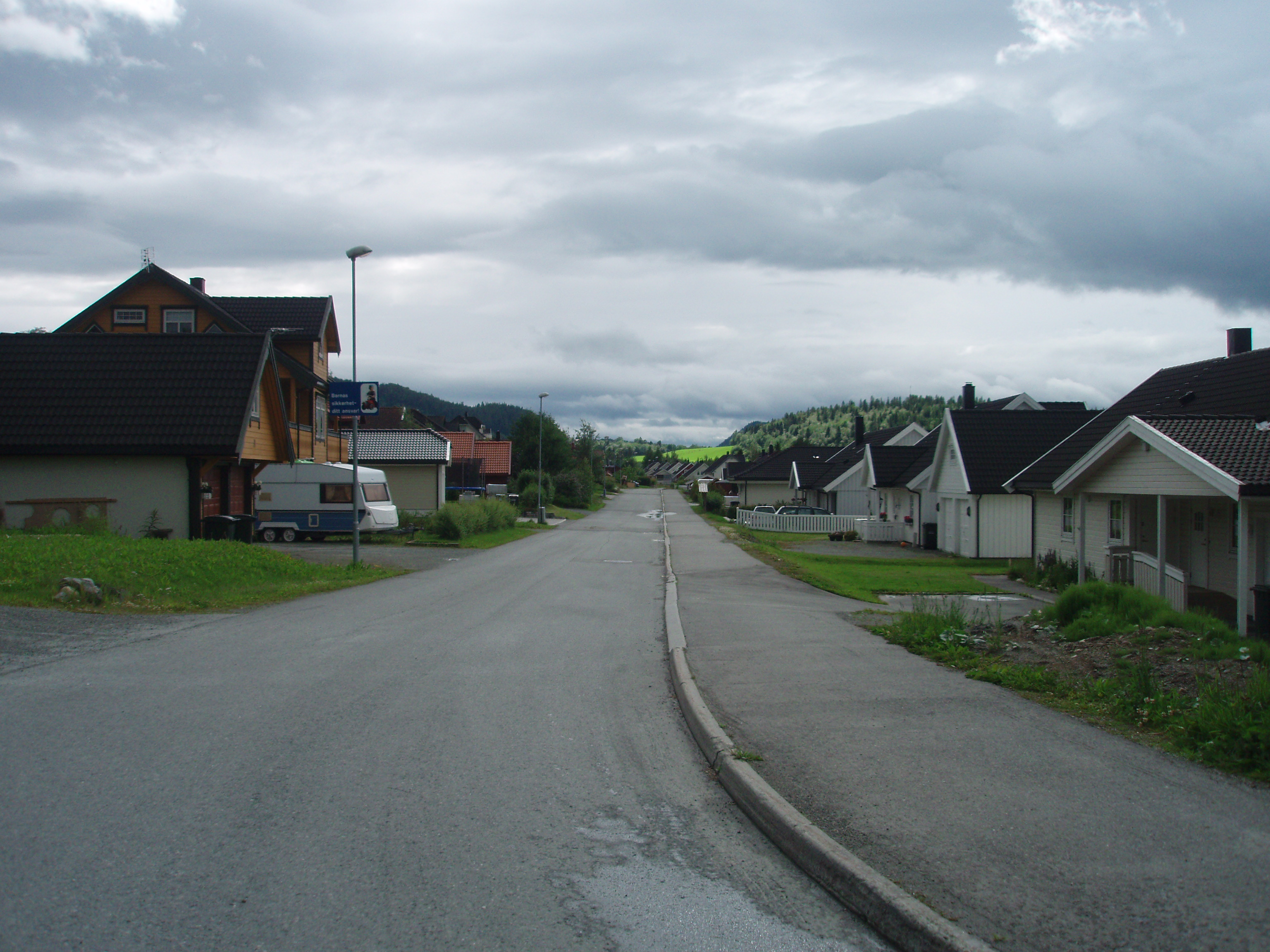 Brekkåsen, a street at Gimse